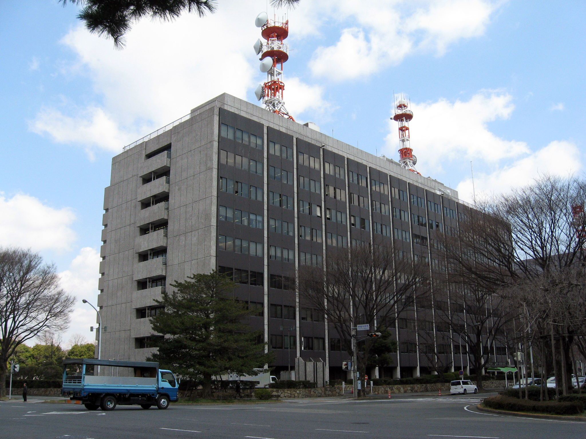 愛知県警察本部のビルAichi Prefecture Police Headquarters